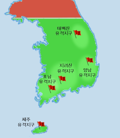 1 year before Korean war, showing North Korea (red); South Korea (green). 1949년 대한민국의 빨치산 유격지구